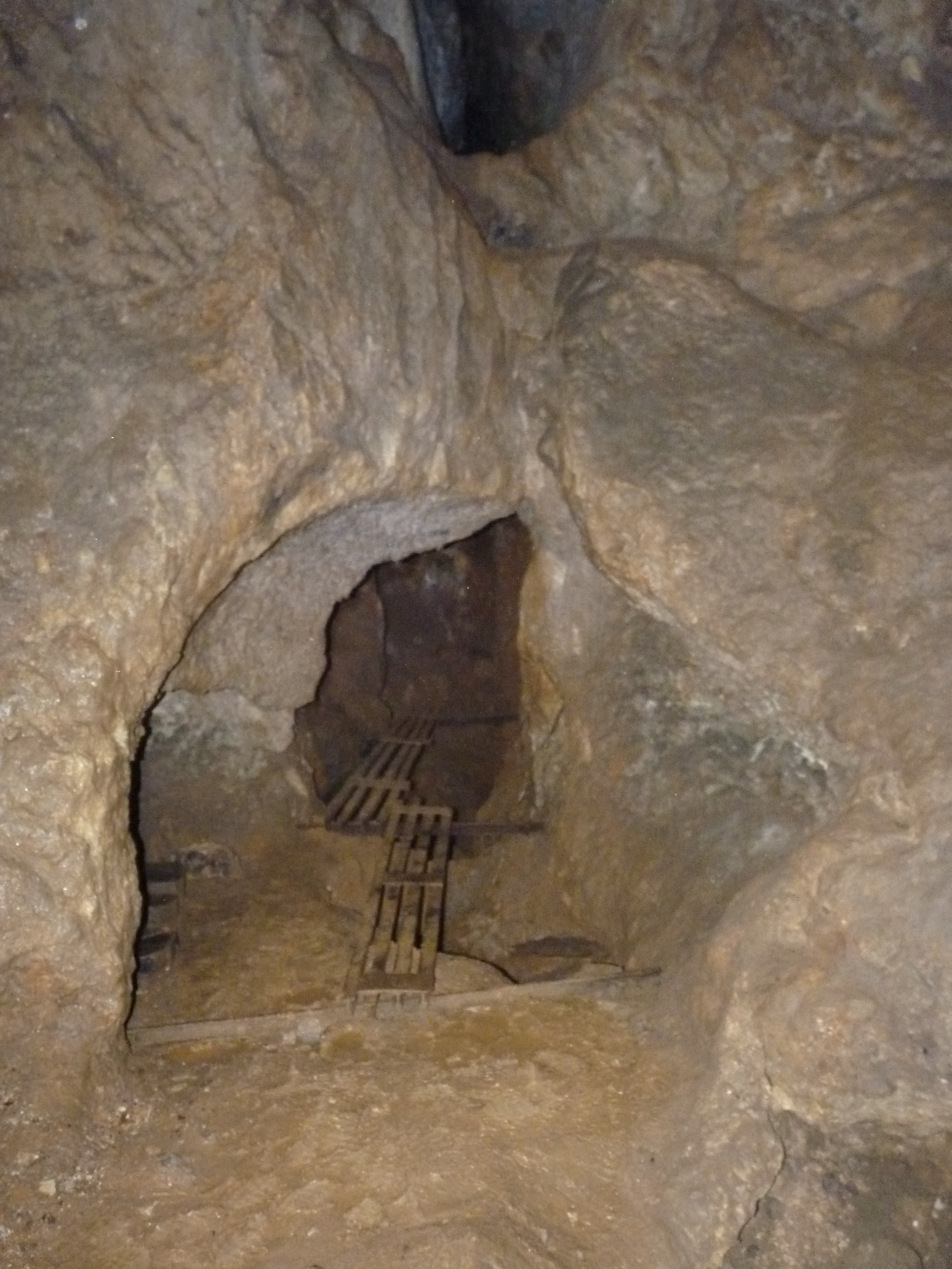 Bátori Cave, view ahead from the Entrance Hall (Bejárati terem)